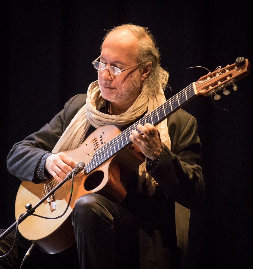 Quique Sinesi in concert with Pablo Ziegler at Cosmopolite. The concert took place on 11. March 2017 in Oslo. Lineup:Pablo Ziegler (piano)Quique Sinesi (guitar)Walter Castro (bandoneon)